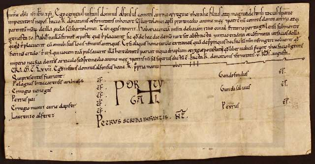 Letter of donation of Saint Bartholomew church of Campelo